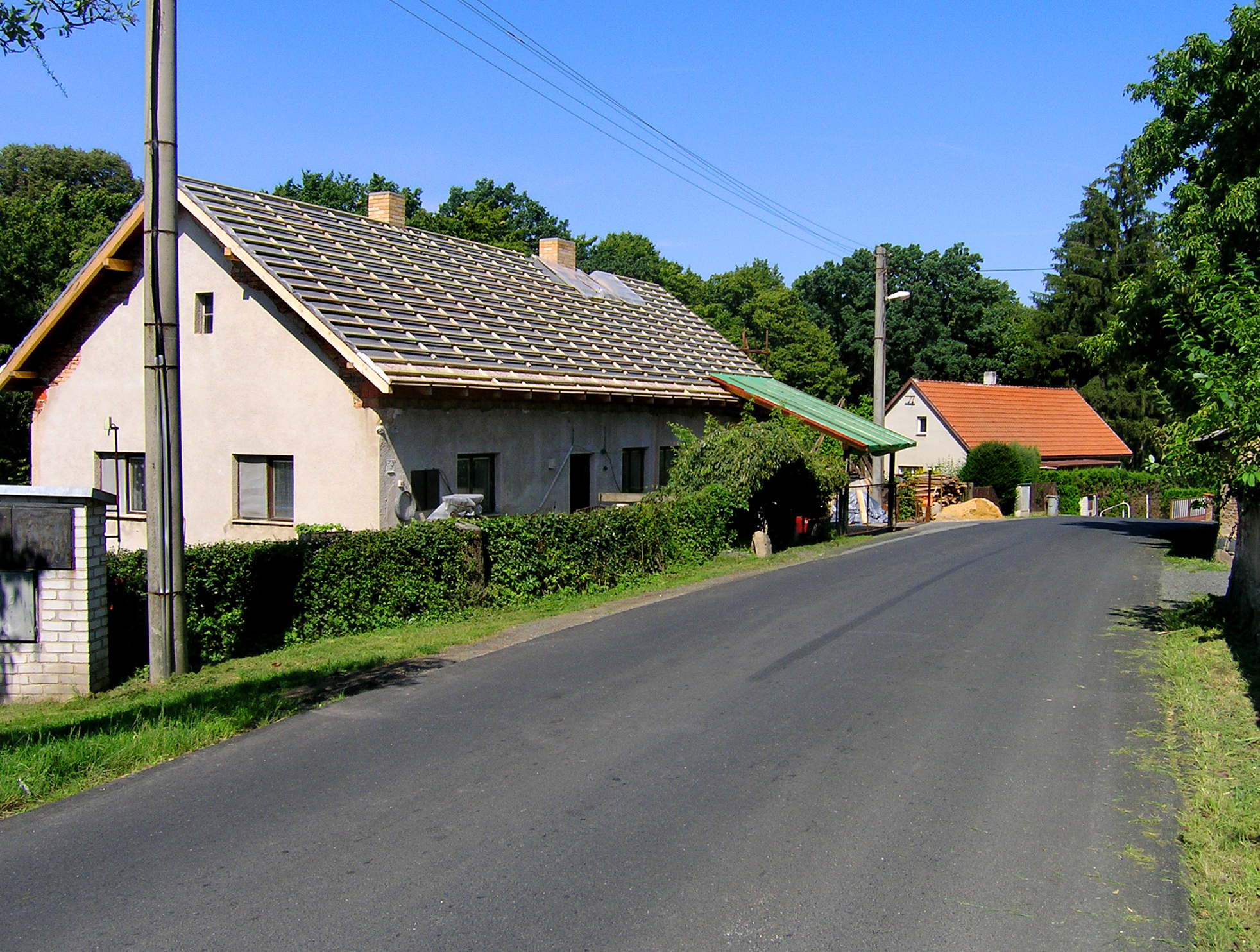 Nebřenice, part of Popovičky village, Czech Republic